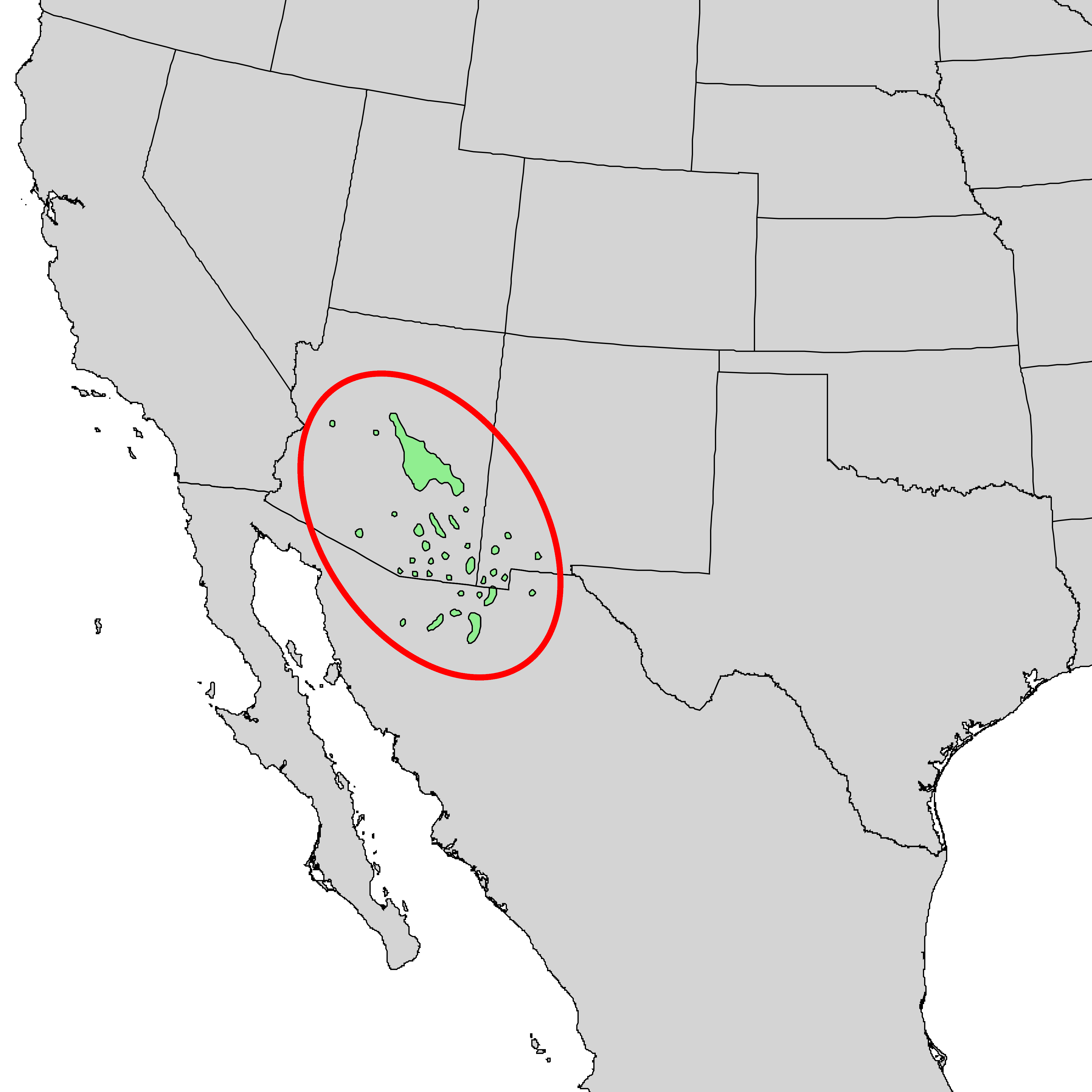 Natural distribution map for Juniperus arizonica (Arizona juniper)